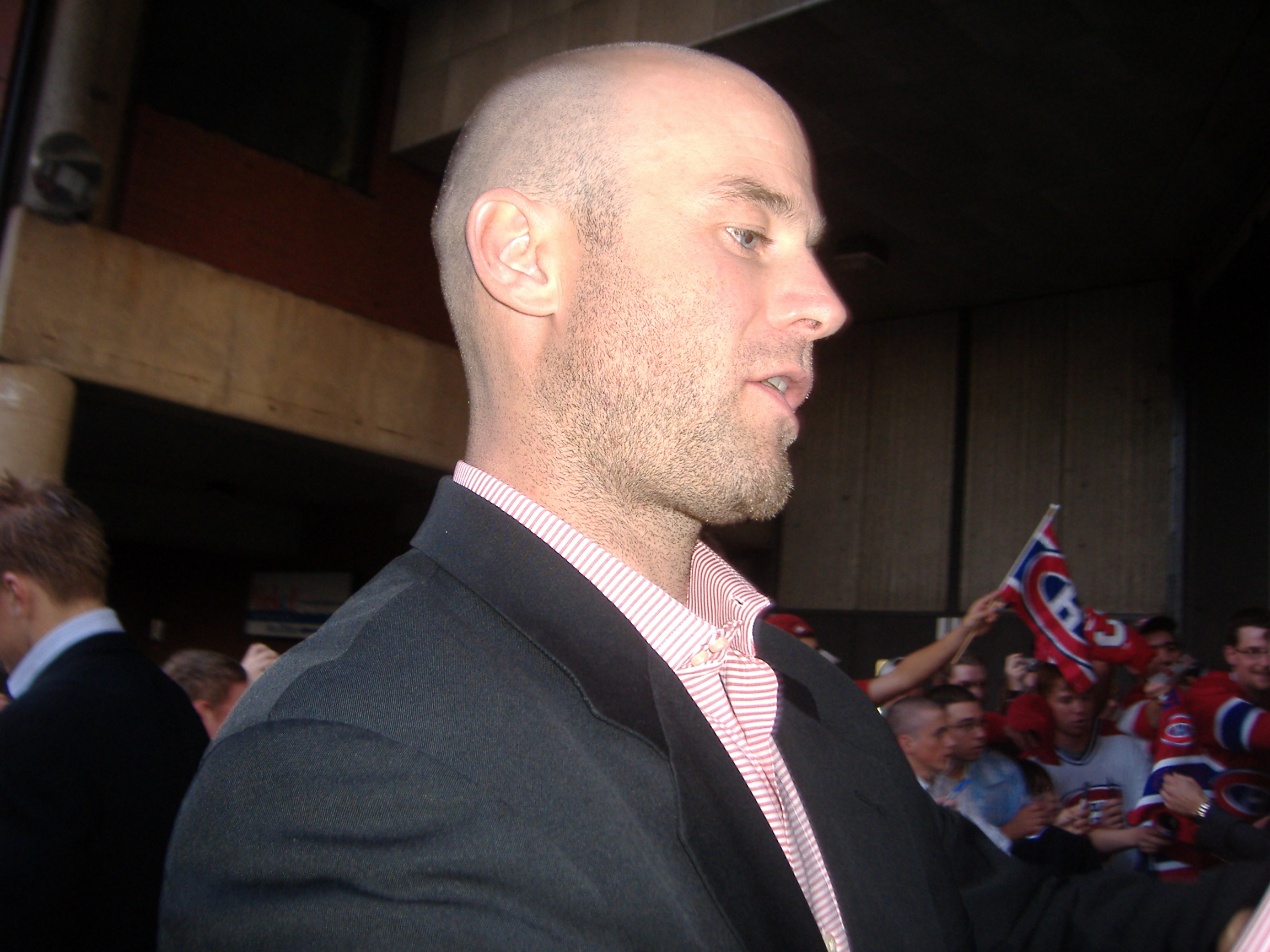 Bryan Smolinski outside Halifax Metro Center after Montreal Canadiens exhibition game on September 28, 2007.